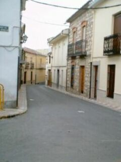 Calle Julio Burrell